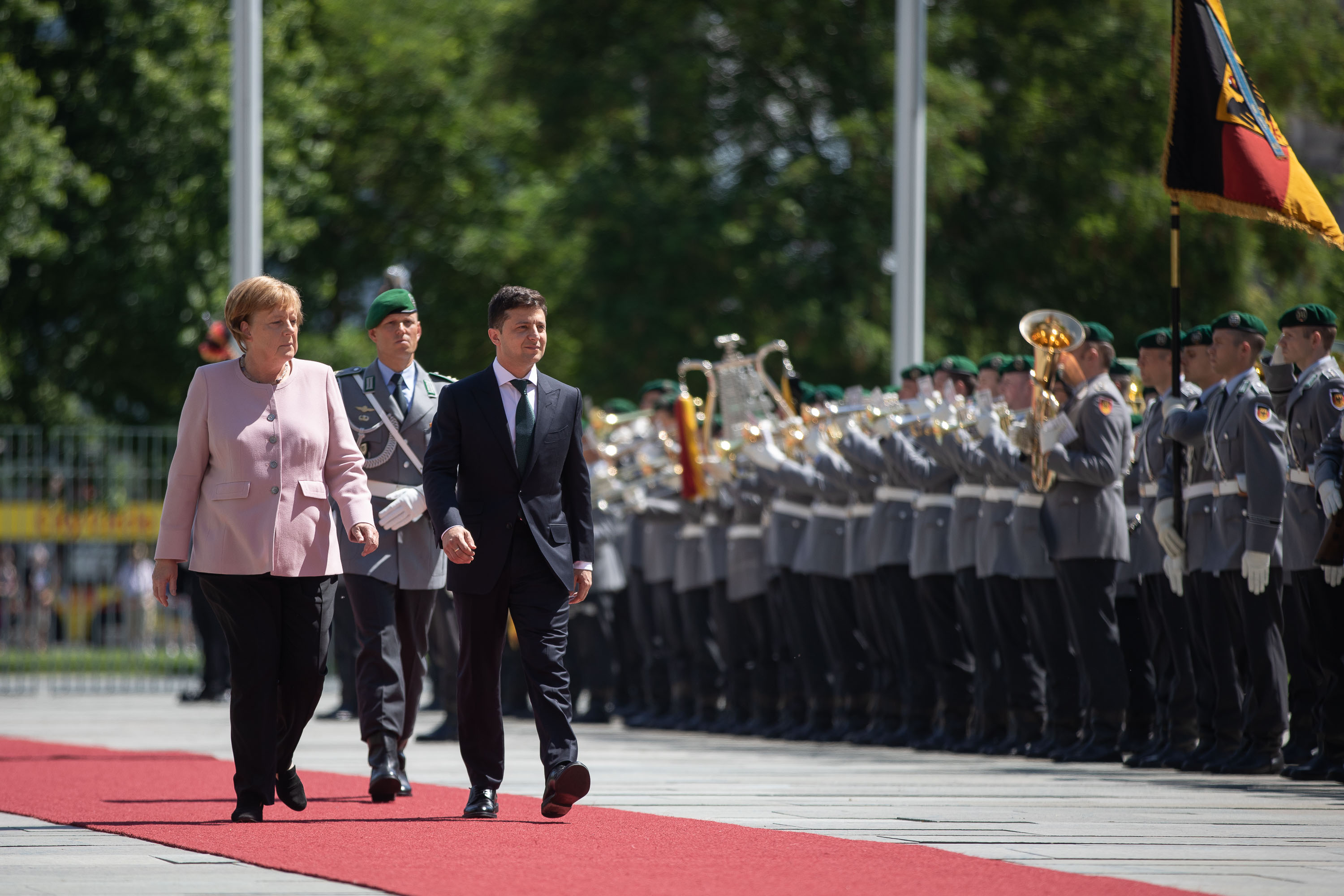 Official visit to Germany